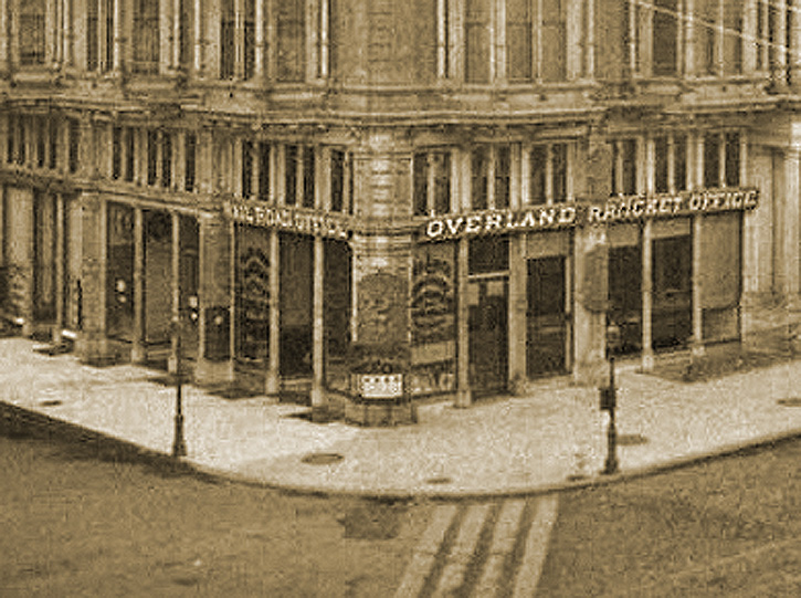 The "Overland Railroad" San Francisco ticket office in the Palace Hotel at the corner of Market and New Montgomery Streets, c1890. (Detail from PD period photograph.) Source: "The Cooper Collection of U.S. Railroad History" (uploader's private collection)